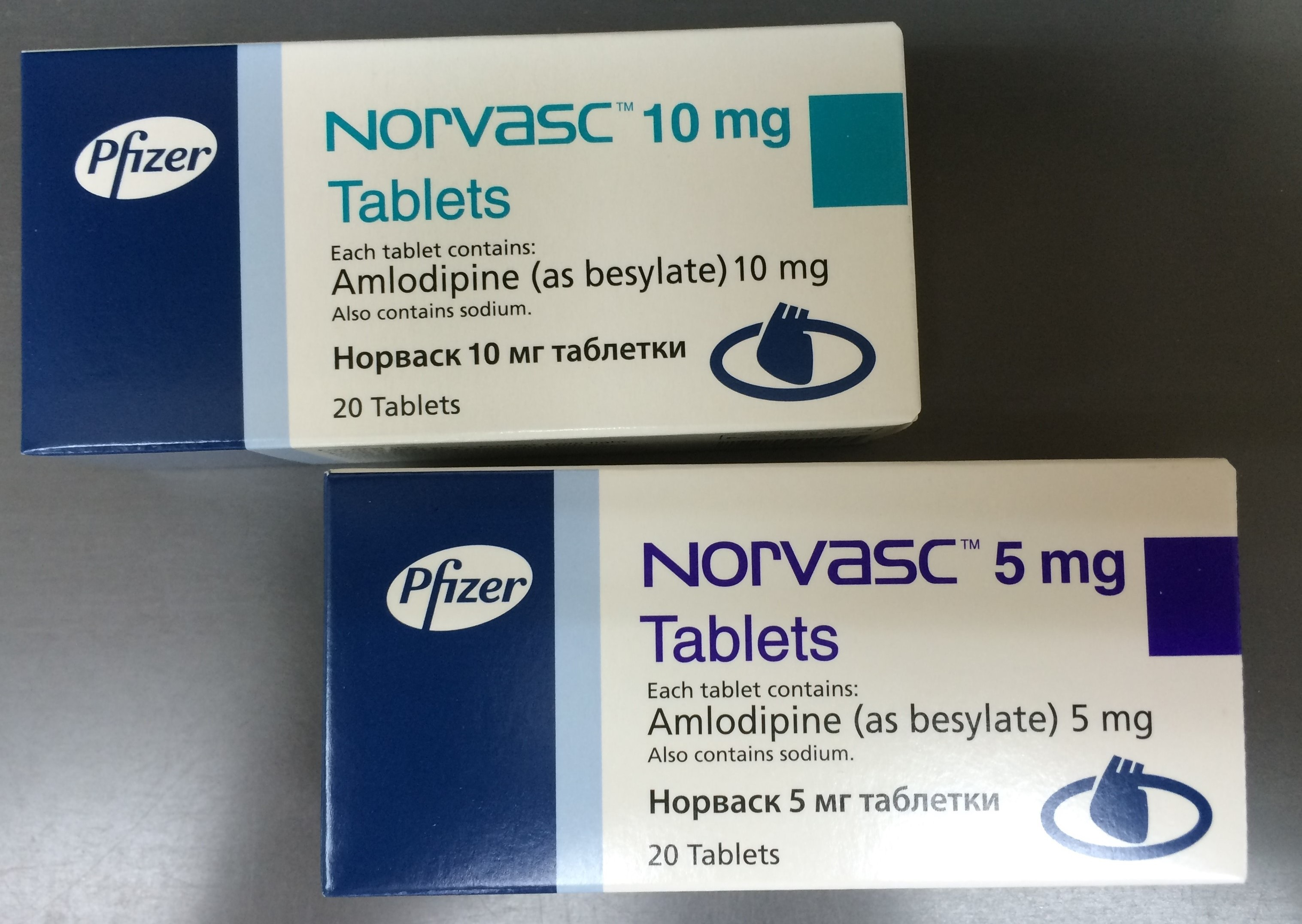 This is a photo of the packages of Norvasc, brand name of amlodipine in Israel in two stregnths 5mg and 10mg. Marketed by Pfizer. Pfizer Logo appears on the box